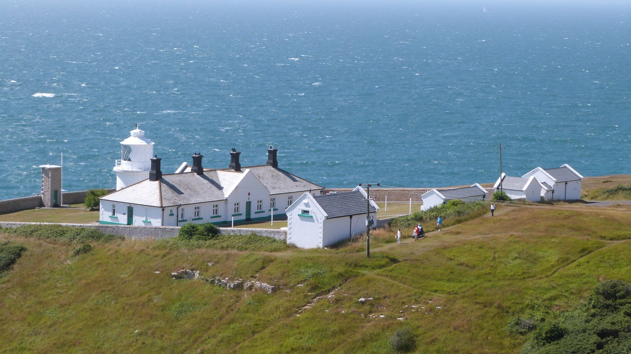 Anvil Point Lighthouse at Durlston Built in 1881. Built of local stone it was completed in 1881. It was opened by Neville Chamberlain's father, then Minister of Transport. The lighthouse tower is twelve metres tall, the height of the light above the high water mark is 45 m